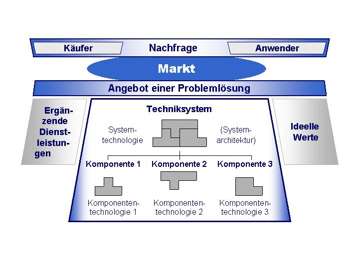 Technical systems as a component of problem solving systems